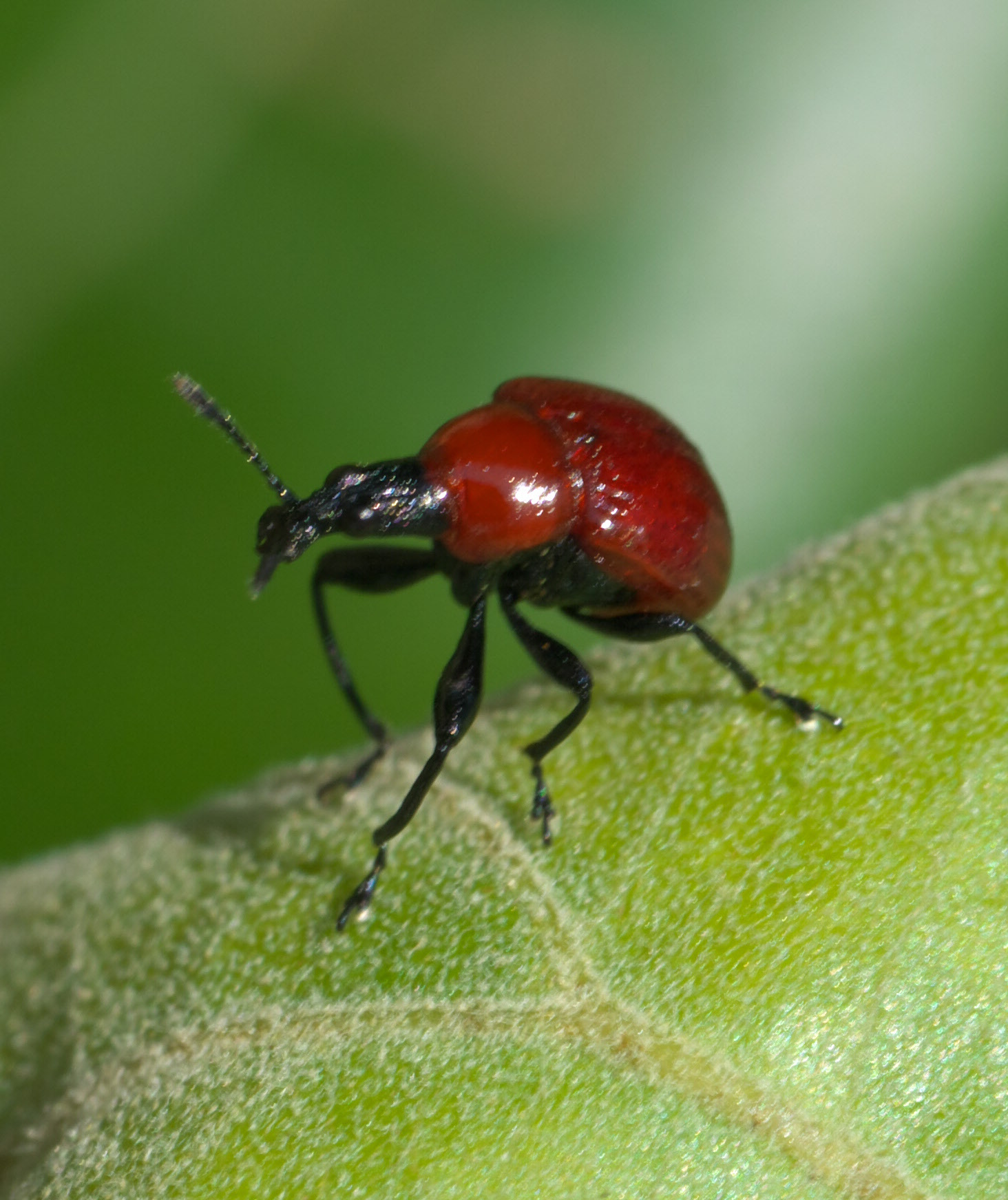 Homoeolabus analis, Leaf-Rolling Weevil, ID Confidence: 92